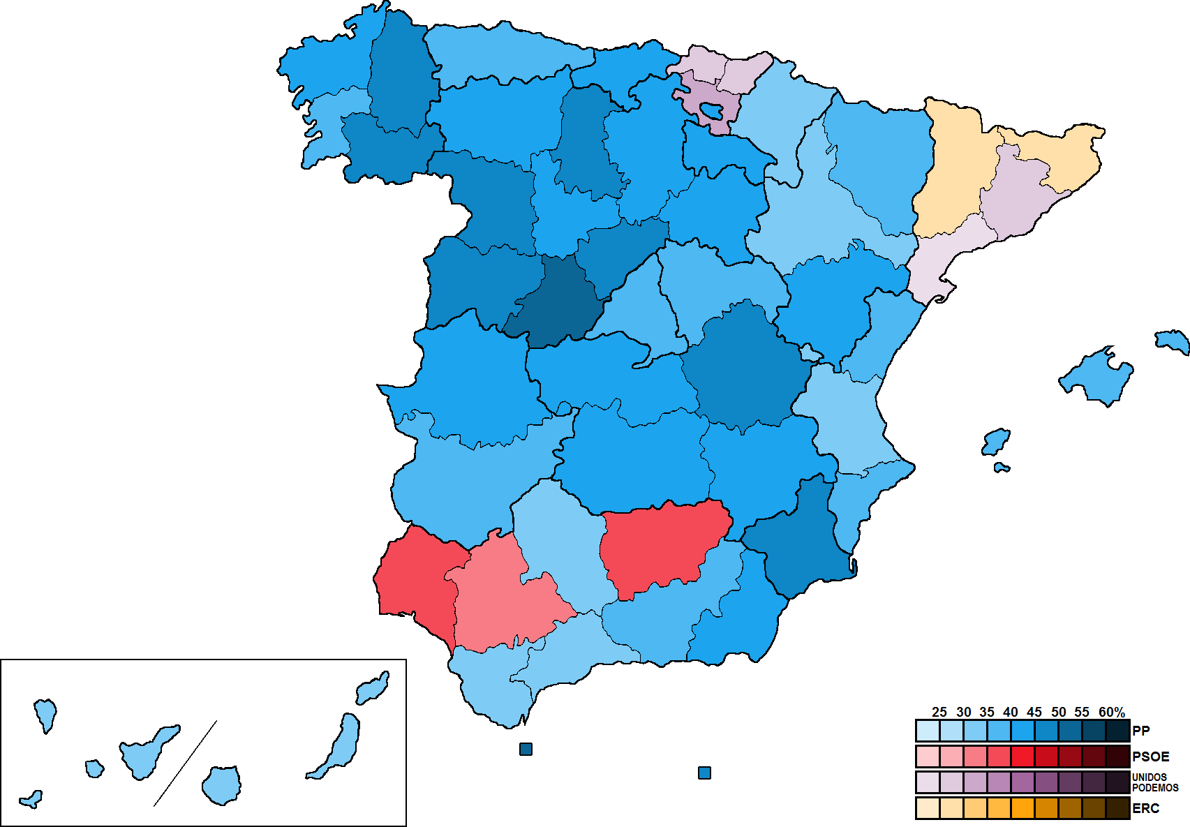 Provincial results for the 2016 Spanish general election.